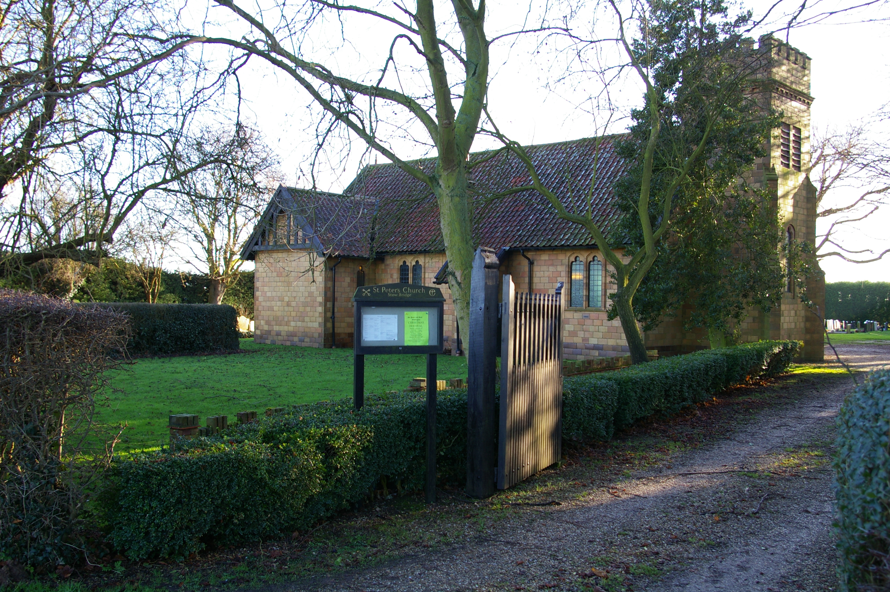 St Peter's Church, Stow Bridge The farm next door is called Church Farm.